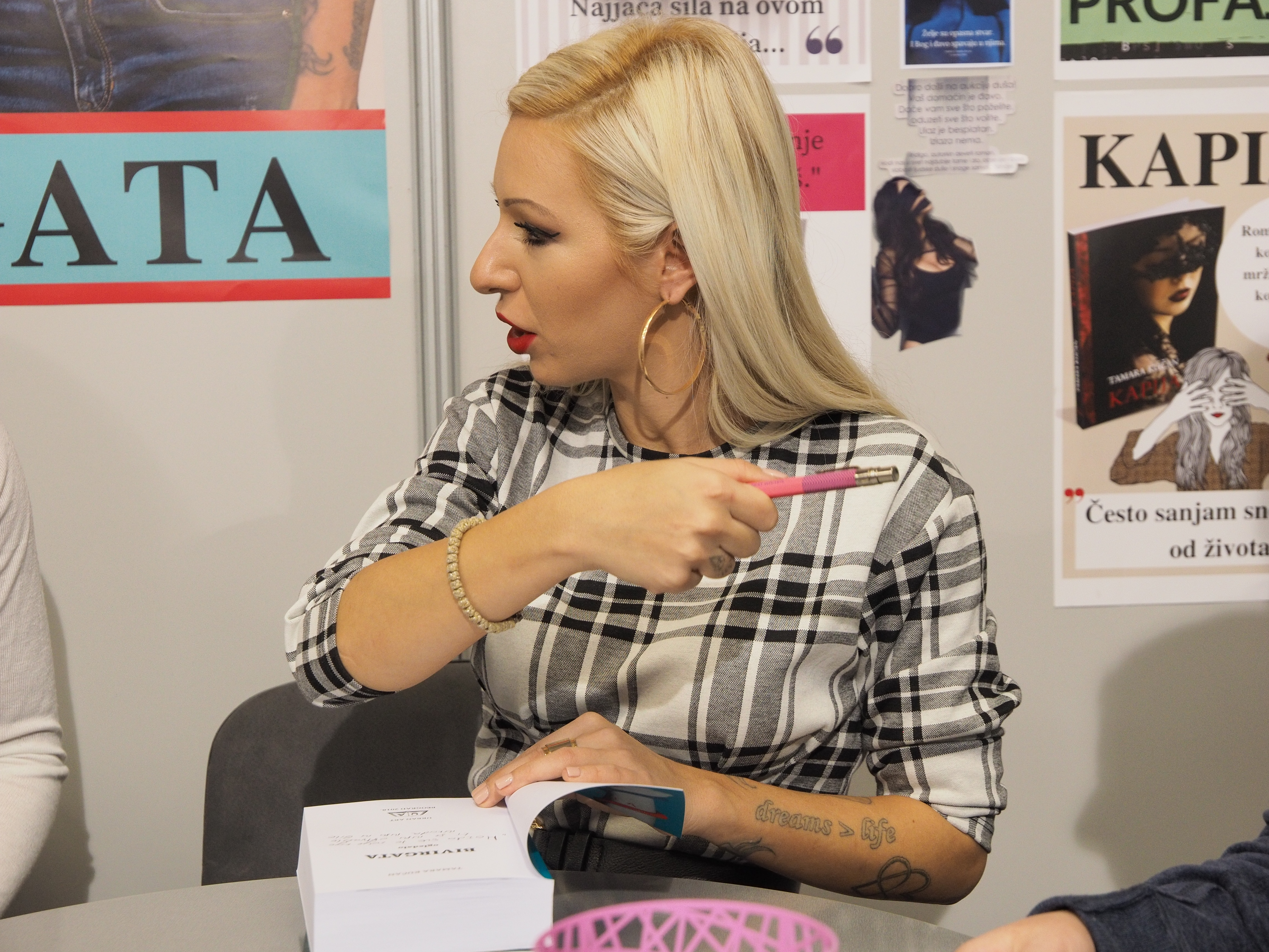 Tamara Kučan (Belgrade Book Fair 2018)